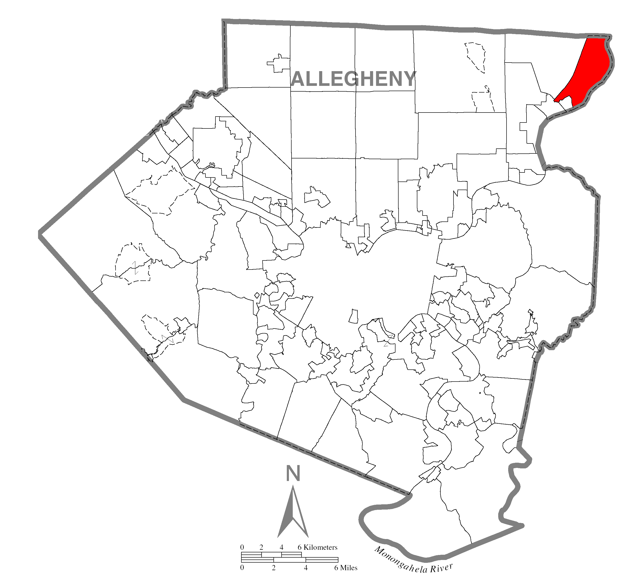 A map of Allegheny County showing Harrison Township, Pennsylvania (alternate) highlighted on the map.